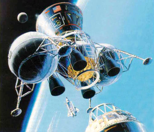 Lunar Exploration Vehicle (LEV), from Early Lunar Access (ELA) concept.